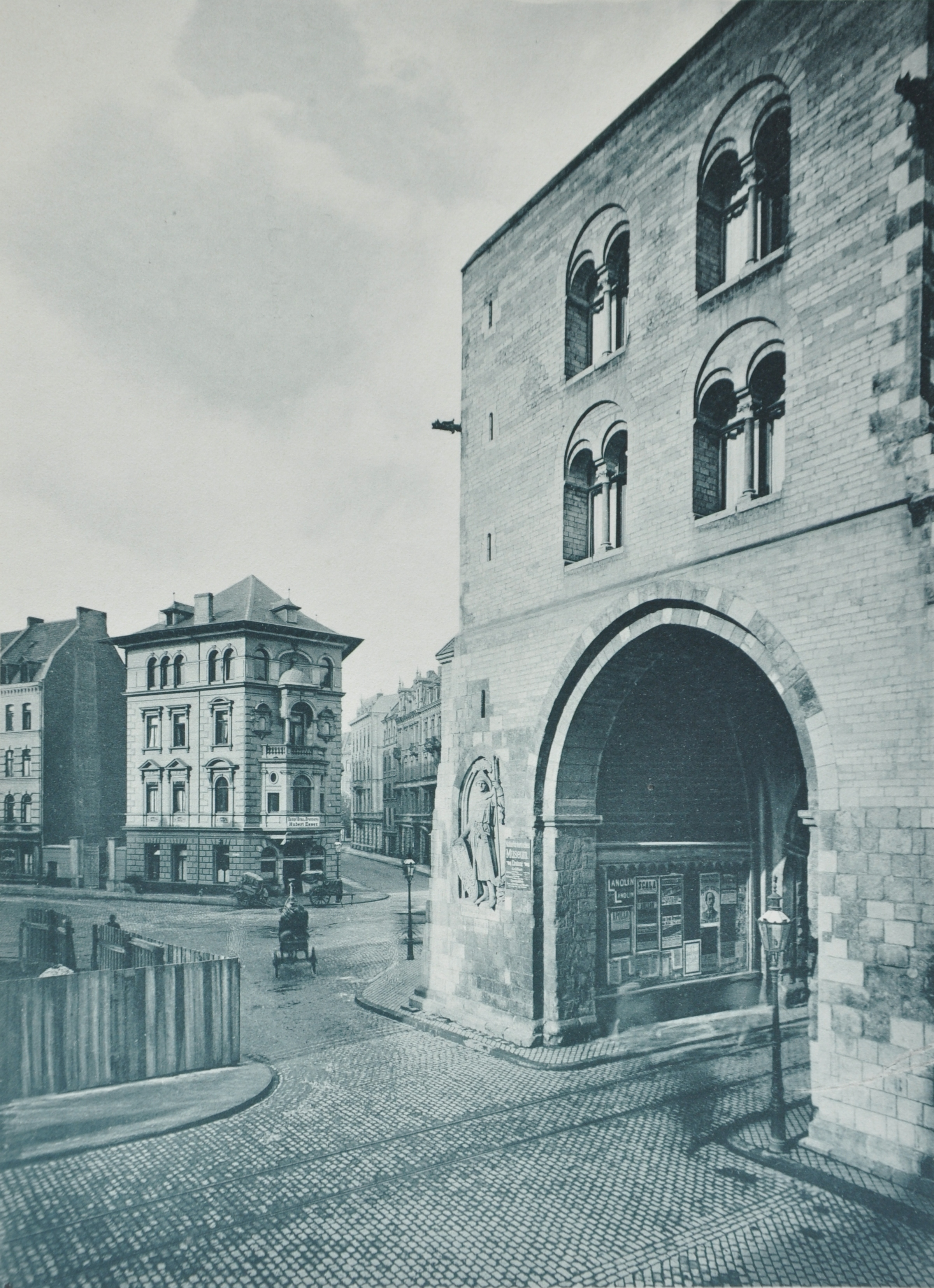 Plate 32. Das Eigelsteinthor from Koeln in Bildern (Cologne in pictures), Paul Neubner, Cologne 1896.